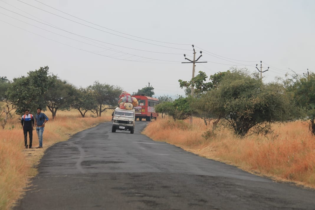 Sohol Abhayaranya In Karanja Lad In Maharashtra in India